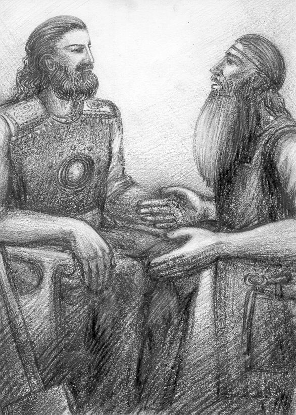 Kugu-Jumo and mari man